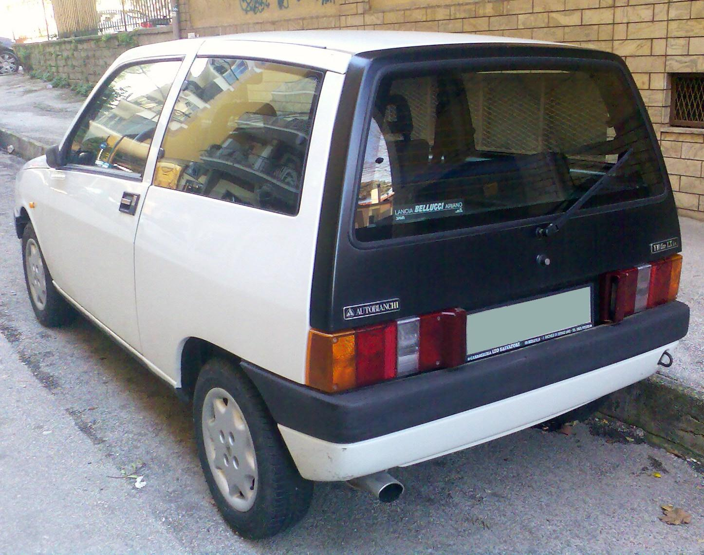 Y10 LX